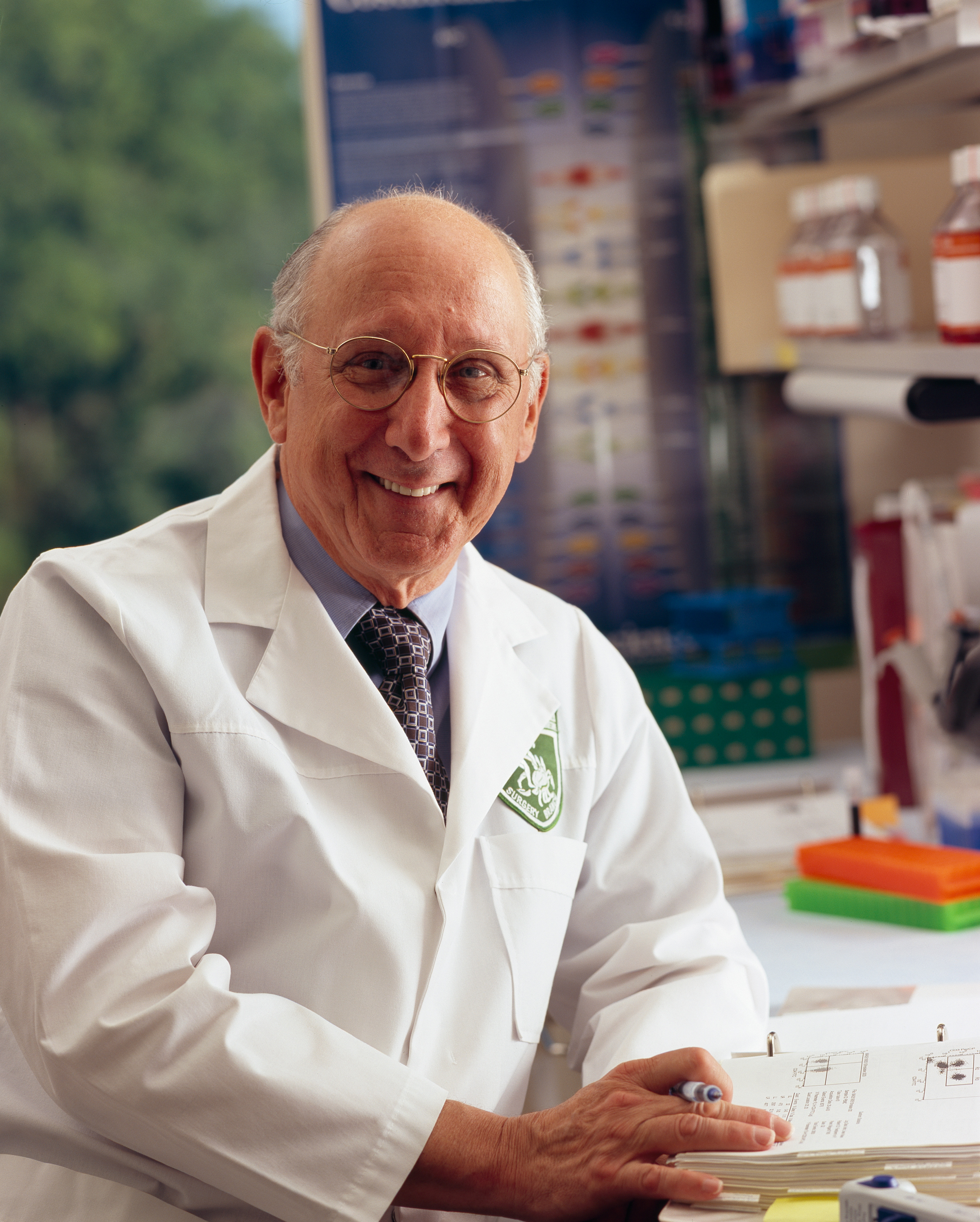 Title: Portrait: Dr. Steven Rosenberg Description: Portrait of Dr. Steven Rosenberg, Chief of the Clincal Center Research, CCR's Surgery Branch. Subjects (names): Rosenberg, Steven Topics/Categories: National Cancer Institute -- People Type: Color Source: National Cancer Institute Author: Rhoda Baer (Photographer) Date Created: July 24, 2008 Date Added: 11/19/2009 Reuse Restrictions: None - This image is in the public domain and can be freely reused. Please credit the source and/or author listed above.